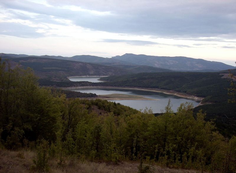 Kamchia water reservoir, Bulgaria